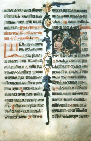 The Glagolitic part of Reims Gospel, XIV c.